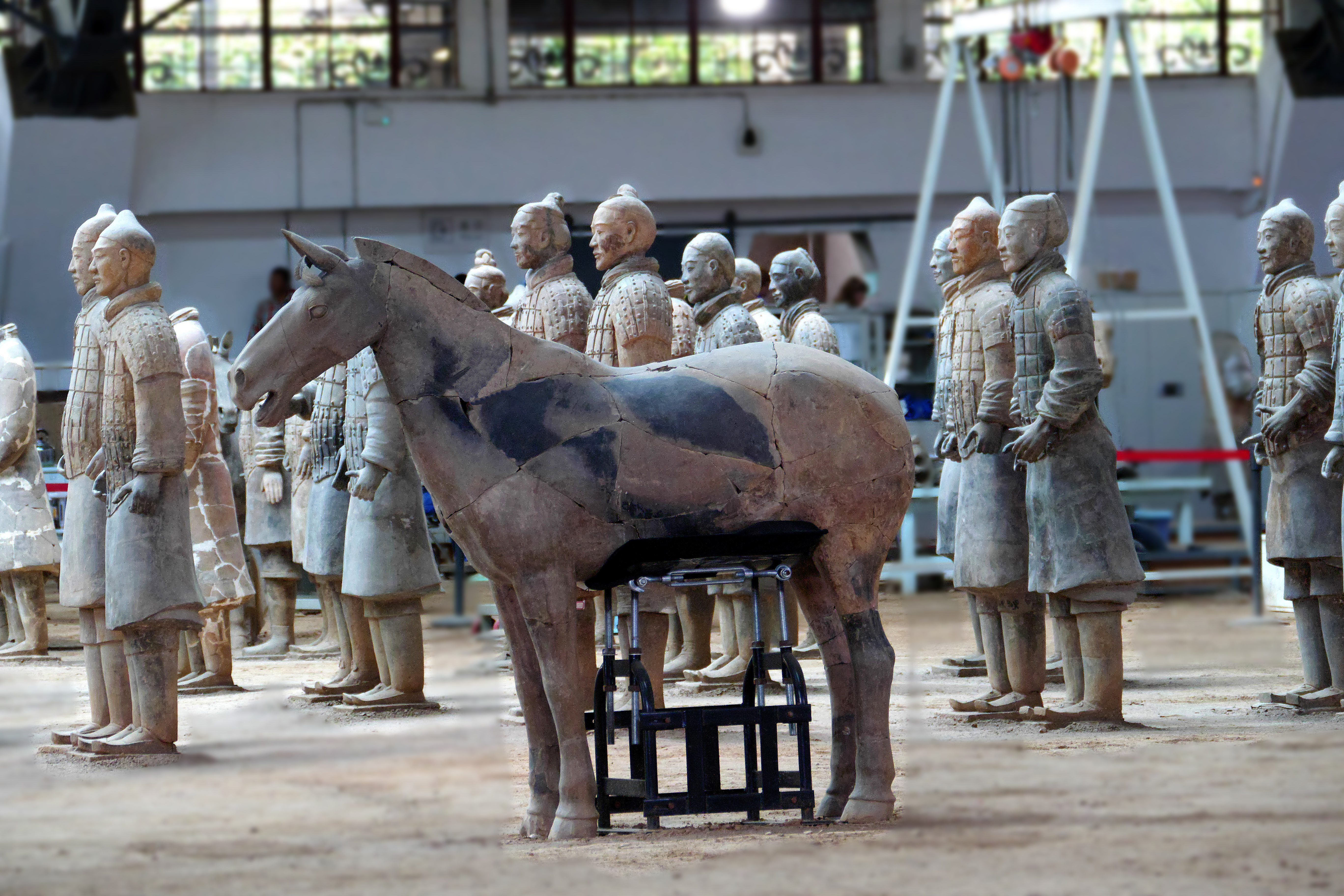 Mausoleum of the First Qin Emperor, Hall 1